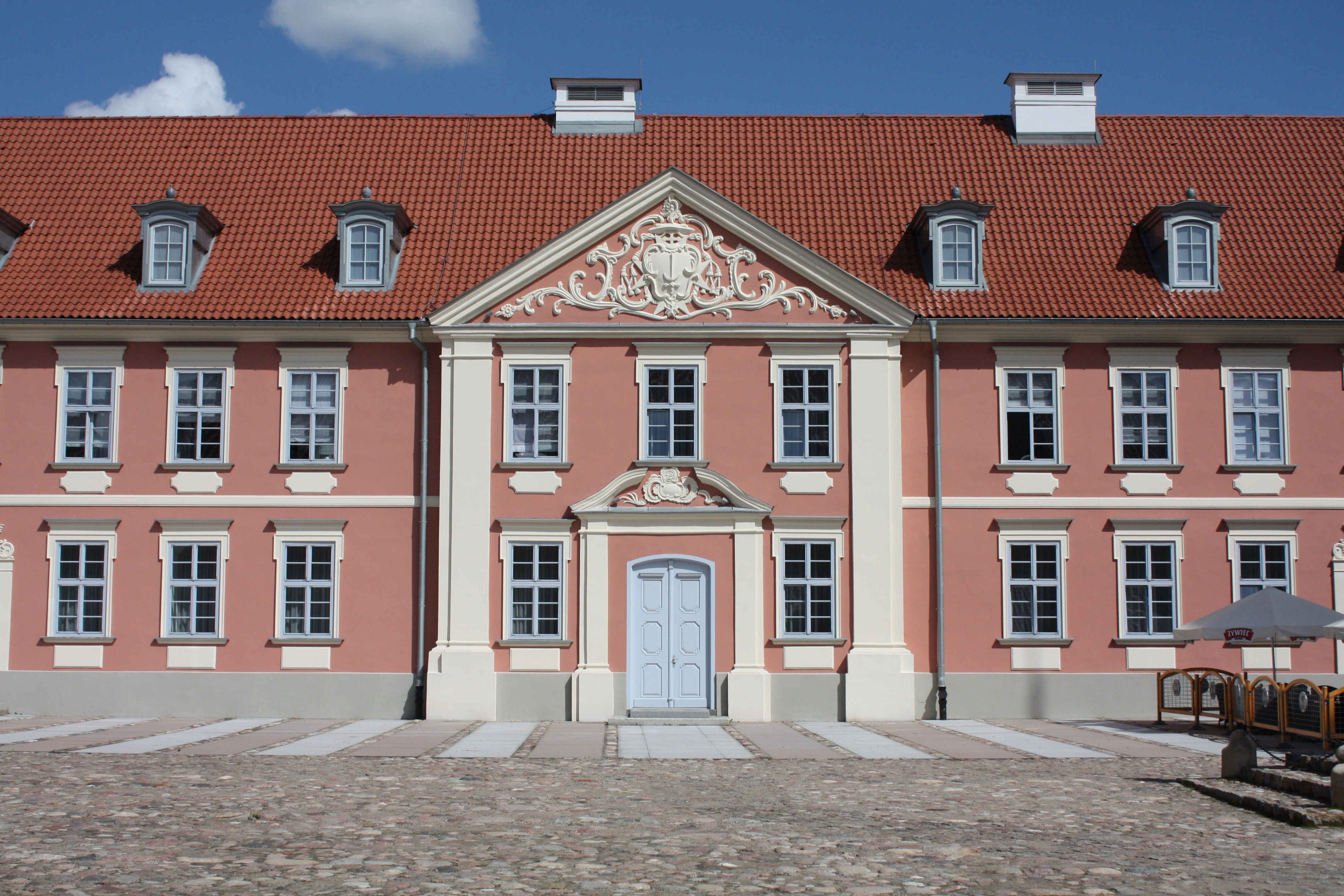 This photo of Warmian-Masurian Voivodeship was taken during Wikiexpedition 2012 set up by Wikimedia Polska Association. You can see all photographs in category Wikiekspedycja 2012. The making of this document was supported by Wikimedia Polska.